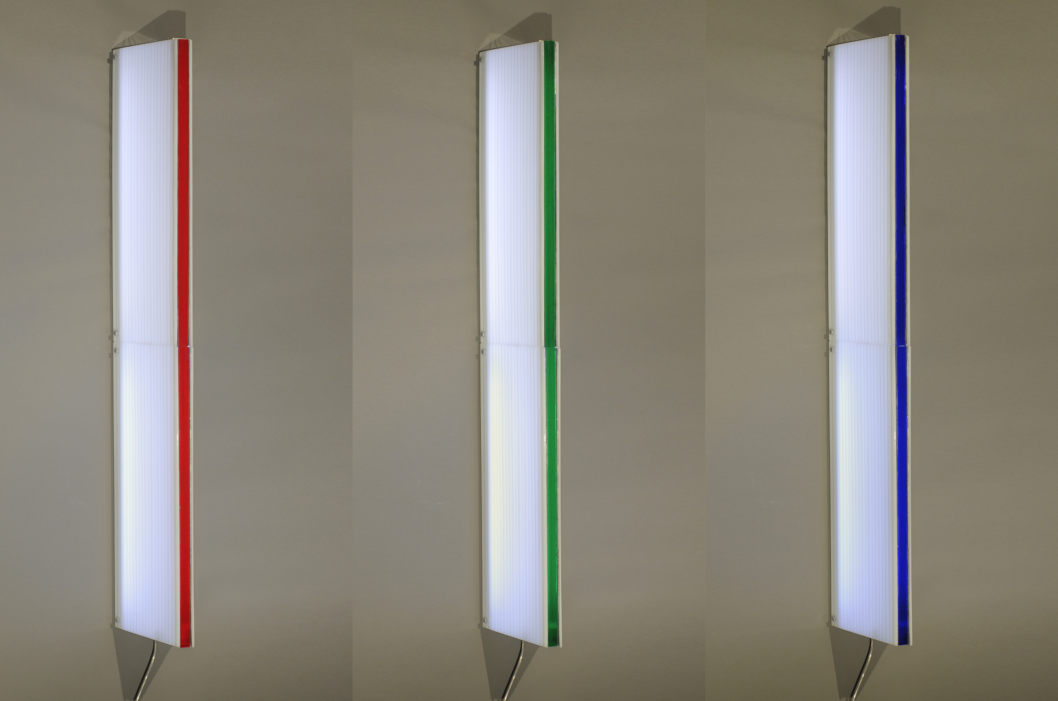 Lampada 45, composition